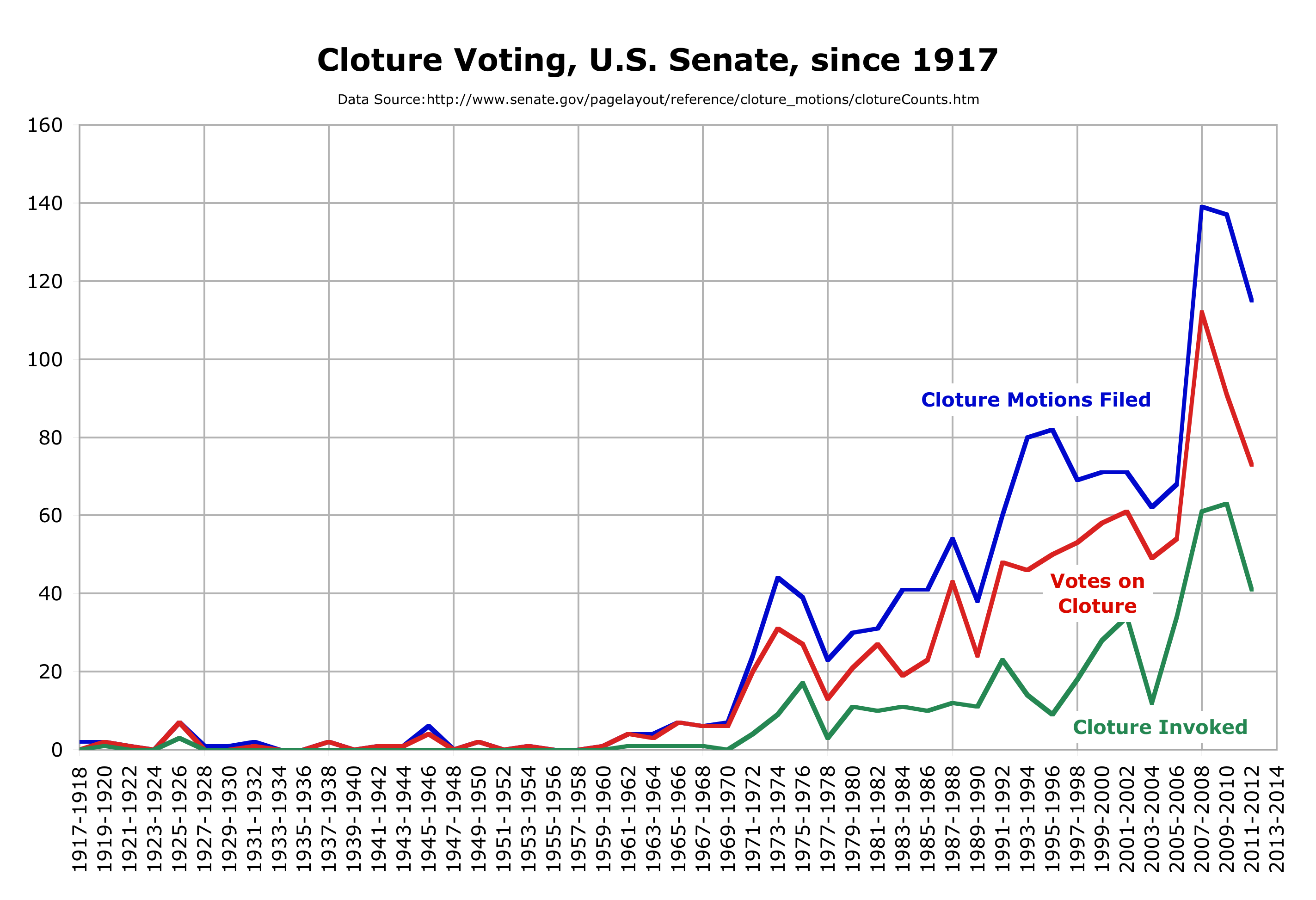 Number of cloture motions filed, voted on, and invoked by the U.S. Senate since 1917. Data from See earlier graph